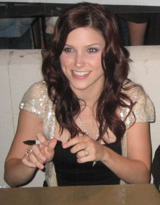 Sophia Bush at a One Tree Hill fan meet'n'greet